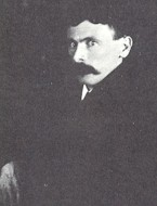 Ray Lamphere, American criminal, at the time of his trial.